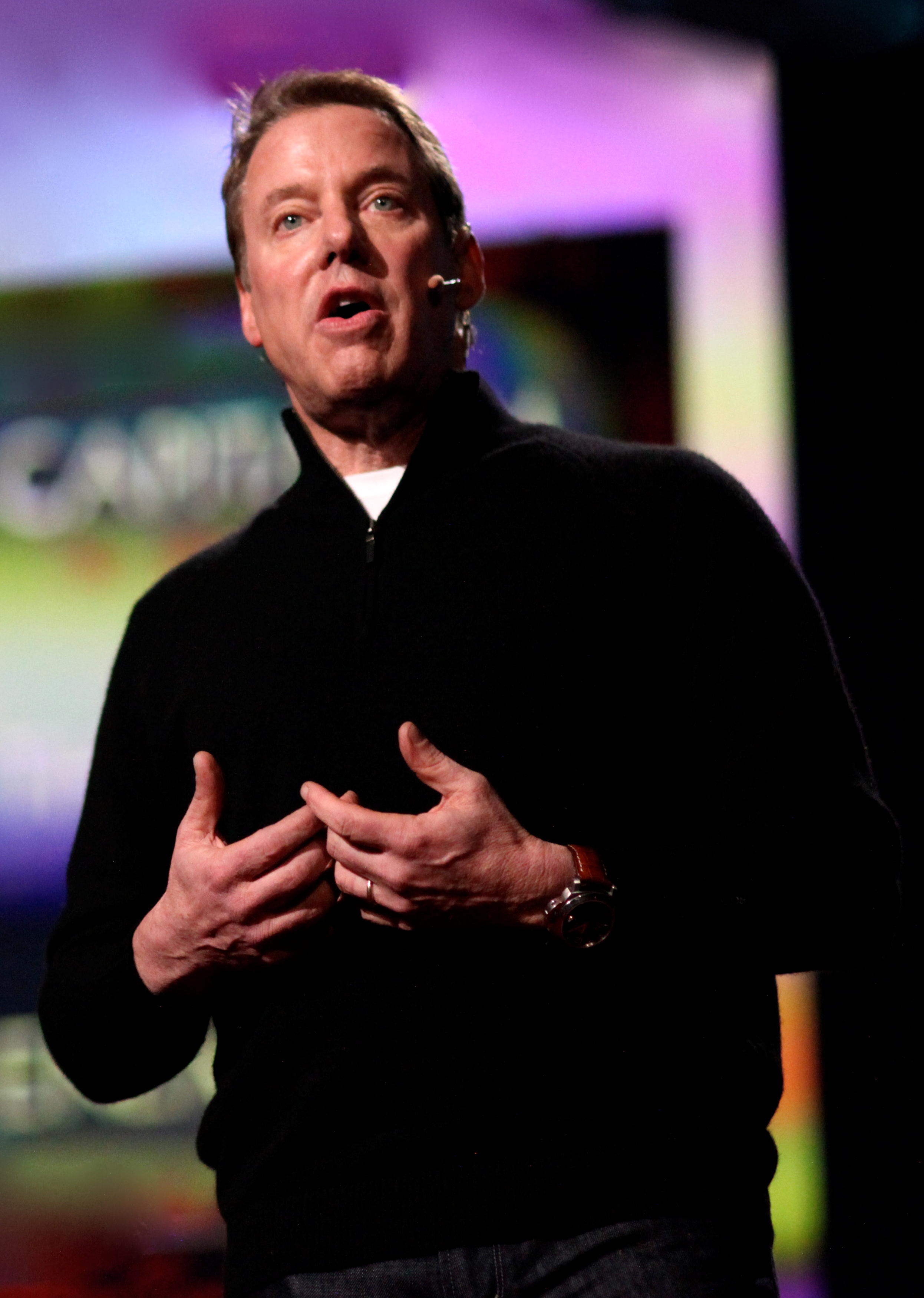 Bill Ford speaking at the February 28 - March 4, 2011 TED Conference.